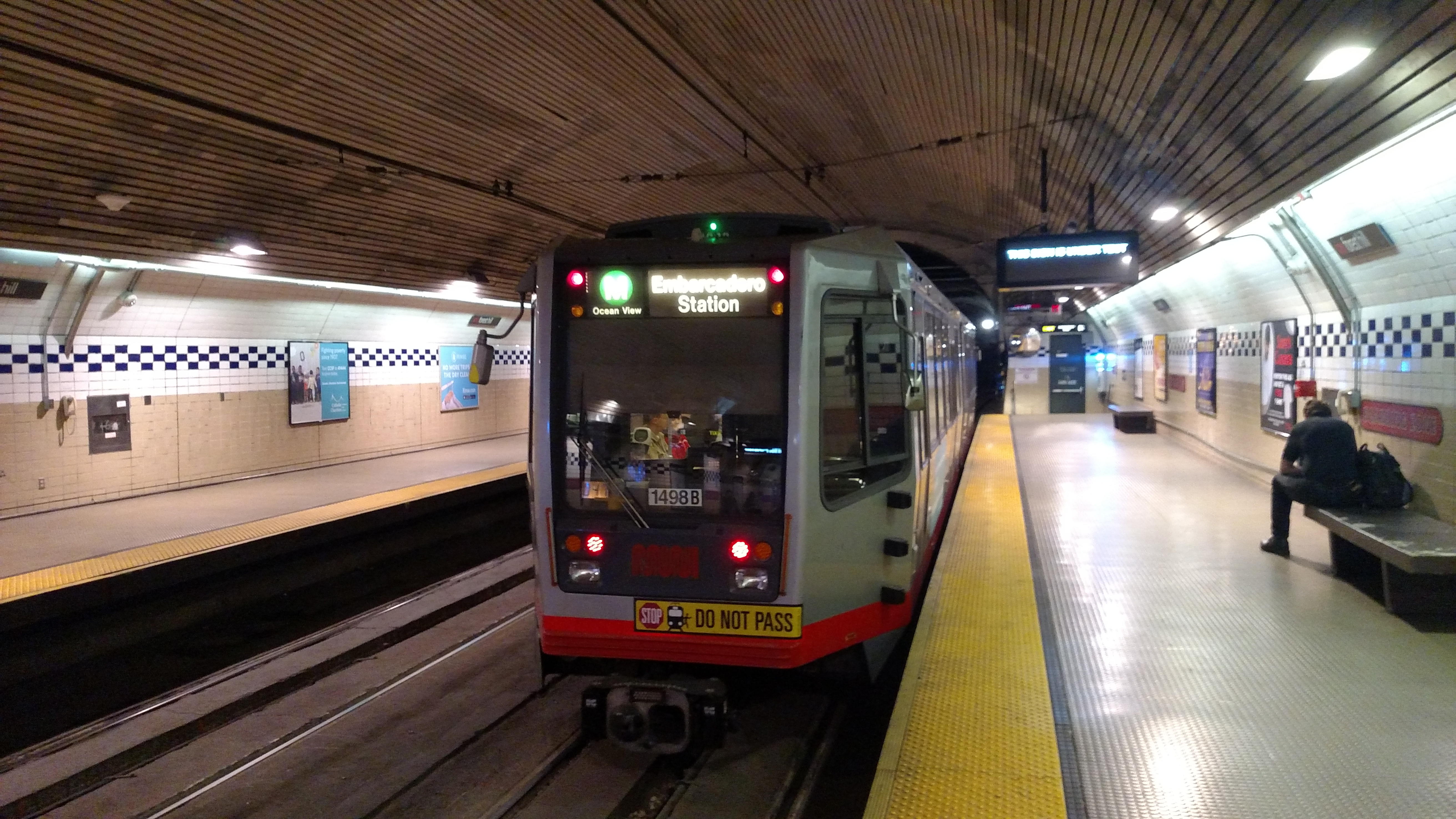 An inbound M Ocean View train at Forest Hill station in December 2017